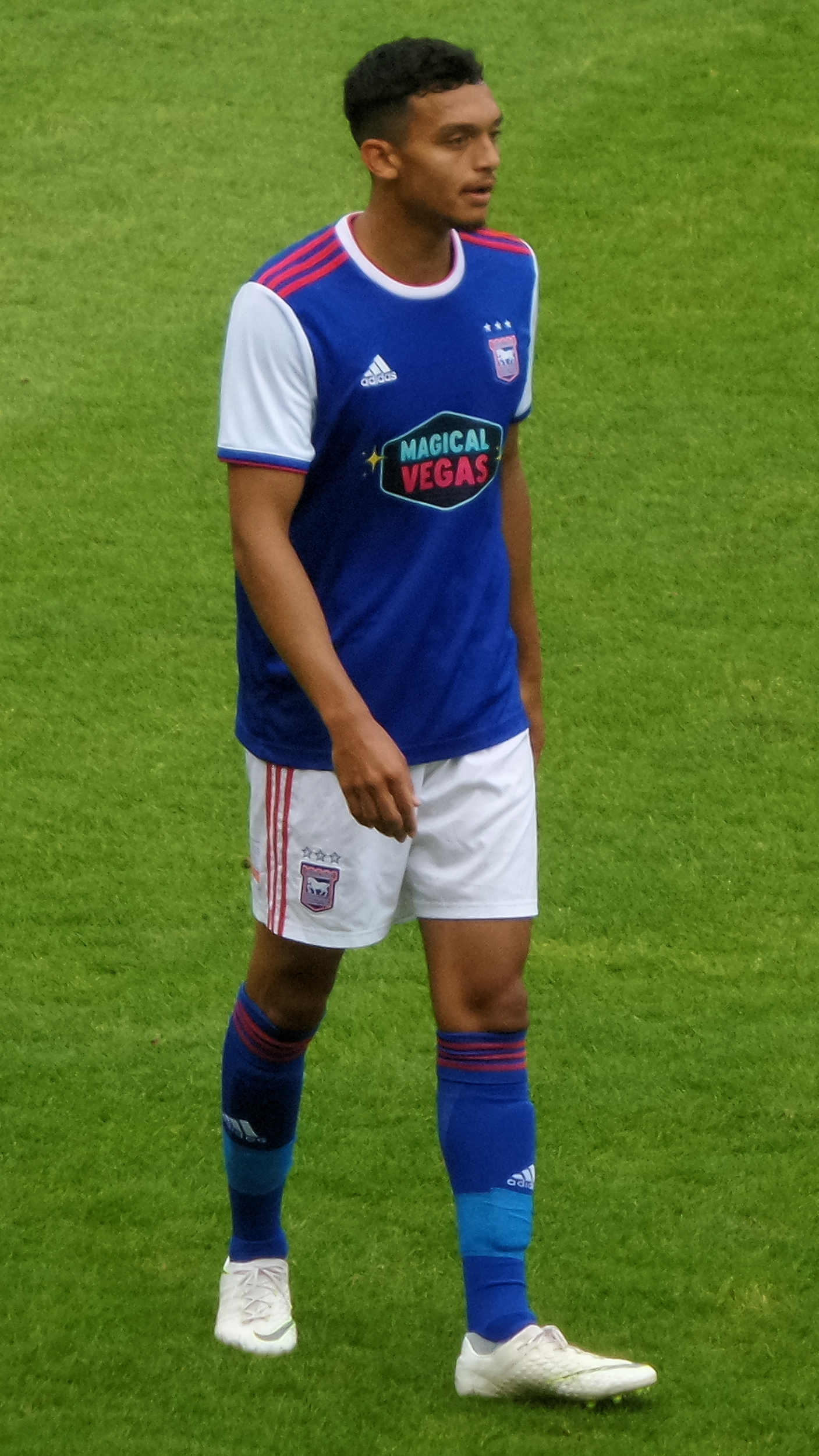 Andre Dozzell playing for Ipswich Town at Barnet on 21 July 2018